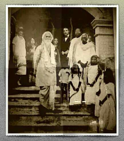 Rabindra Nath In Vidyamoyee Govt. Girls' High School